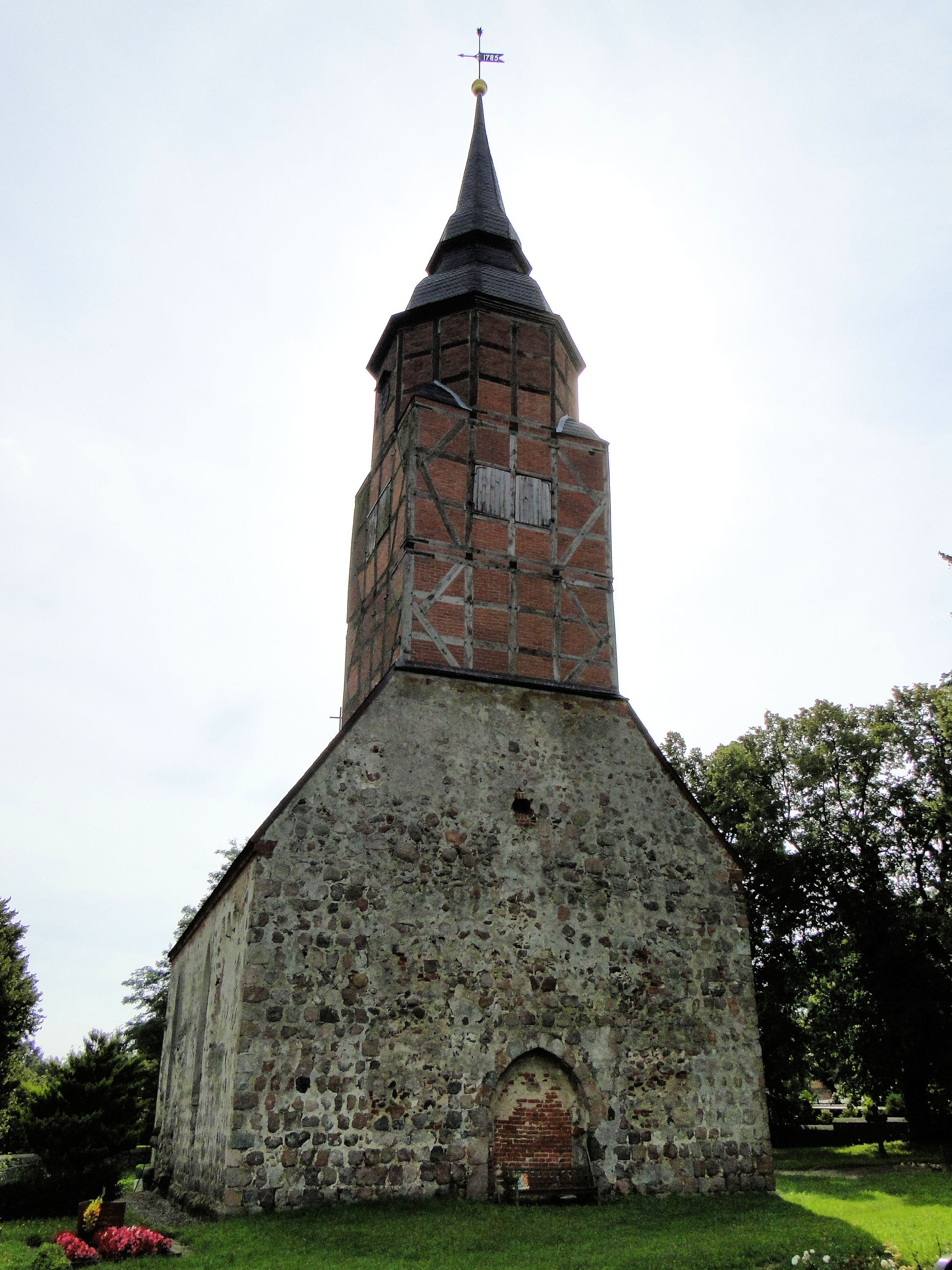 Church in Ganzkow, district Mecklenburg-Strelitz, Mecklenburg-Vorpommern, Germany